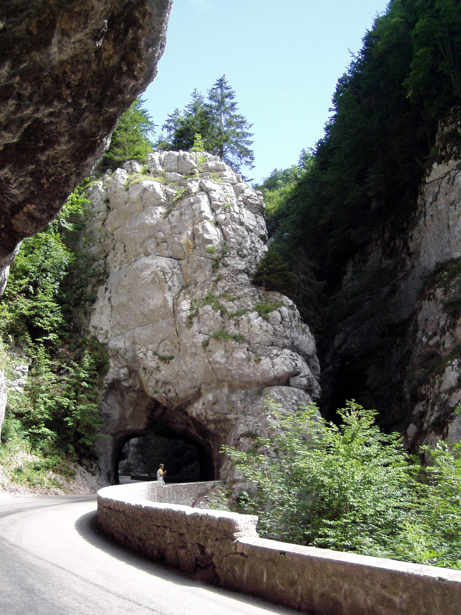 Gorges of Bourne river, Vercors, France. Road D 531.